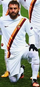 AS Roma